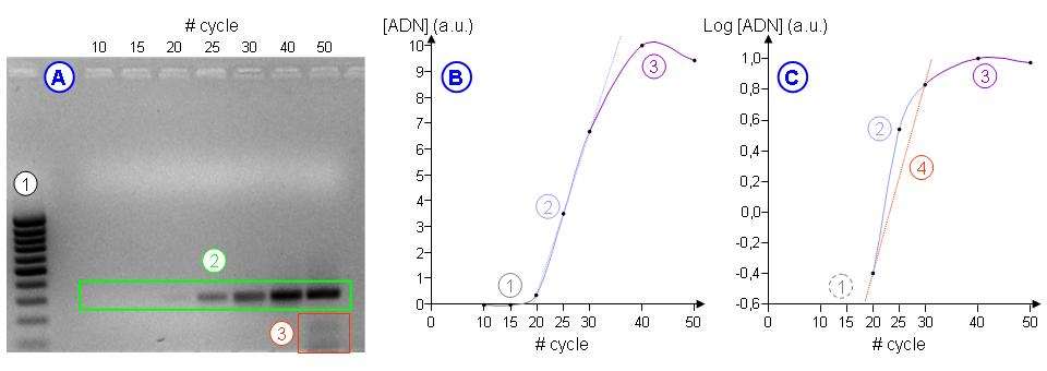 Cycle range etablishment for the end-point PCR. The graph with logarithmic data (c) prove that linear phase in normal data graph (b) is'nt a exponential amplification. For complete description, please see end-point PCR french Wikipédia article. This potential class is PCR or "common error in science". For other similar graph, you can see my Commons Gallery!